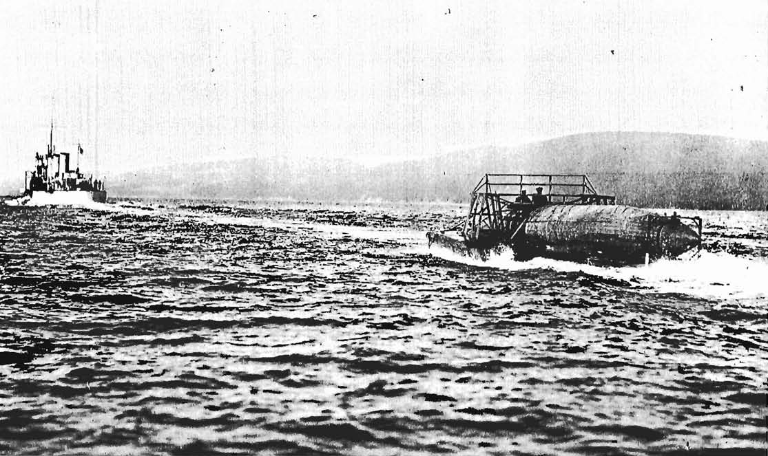 The HMCS Patriot towing the hydrofoil prototype craft HD-4 Original caption: “The Royal Canadian Navy's interest in hydrofoil development goes back to the years just after the First World War. HMCS Patriot, a destroyer, is shown towing at 14 knots the HD-4, a hydrofoil craft designed by Dr. Alexander Graham Bell and F. W. (Casey) Baldwin, on the Bras d'Or Lakes, near Baddeck, N.S. The HD-4 established a 60-knot speed record that stood for a generation.”